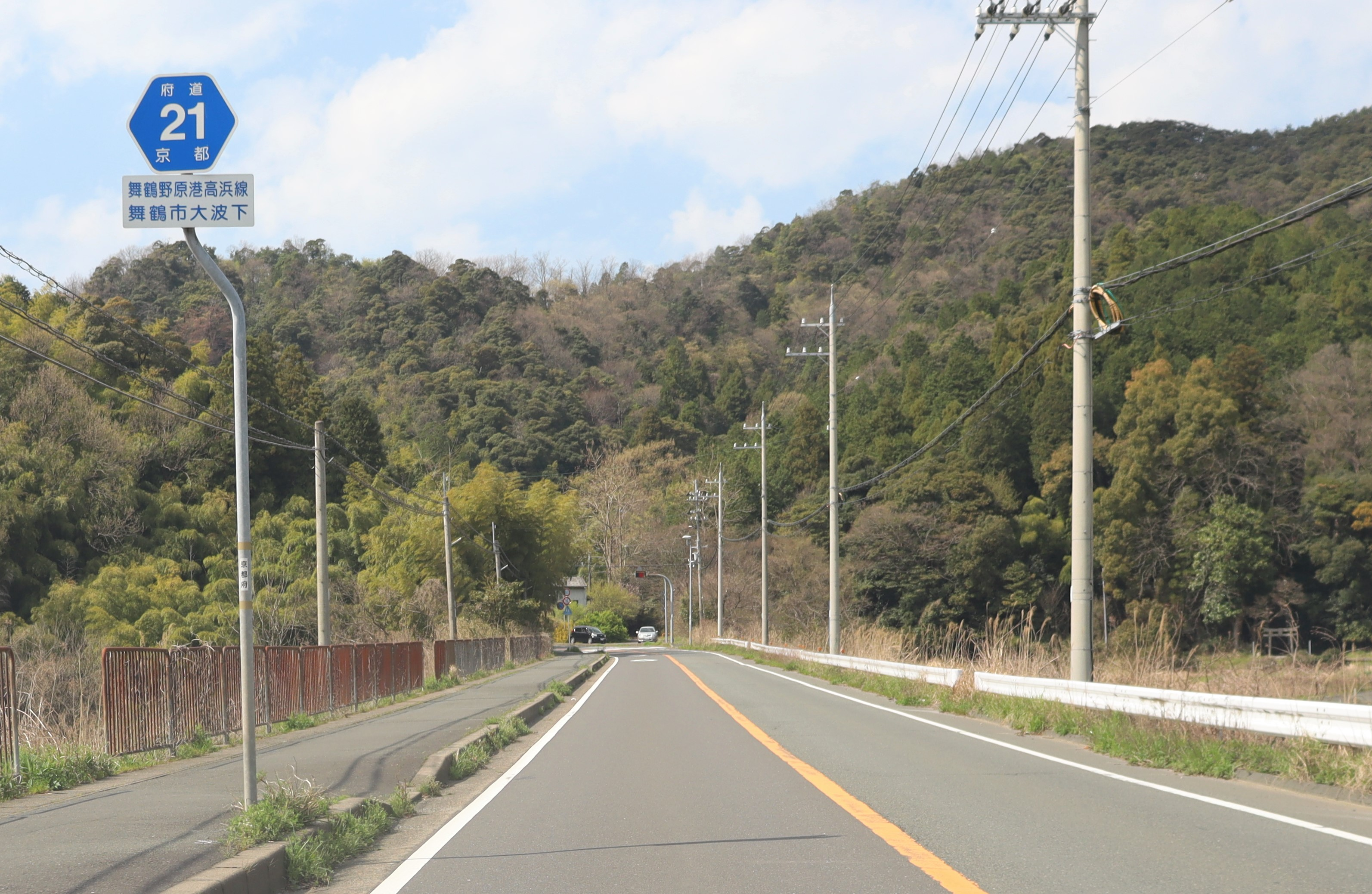 Kyoto Prefectural Road Route 21 in Obashimo, Maizuru, Kyoto Prefecture, Japan.